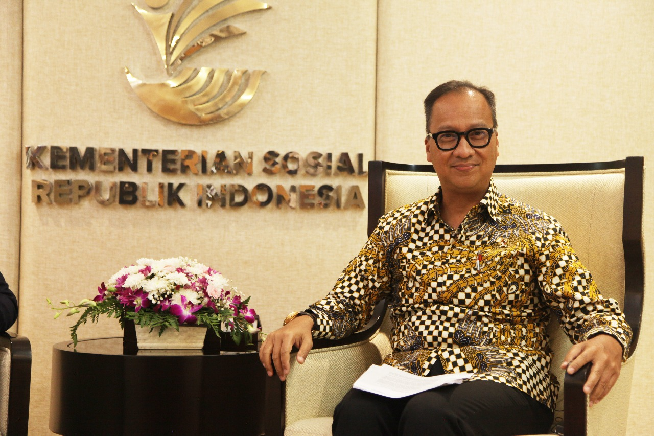 Agus Gumiwang Kartasasmita as Minister of Social Affair